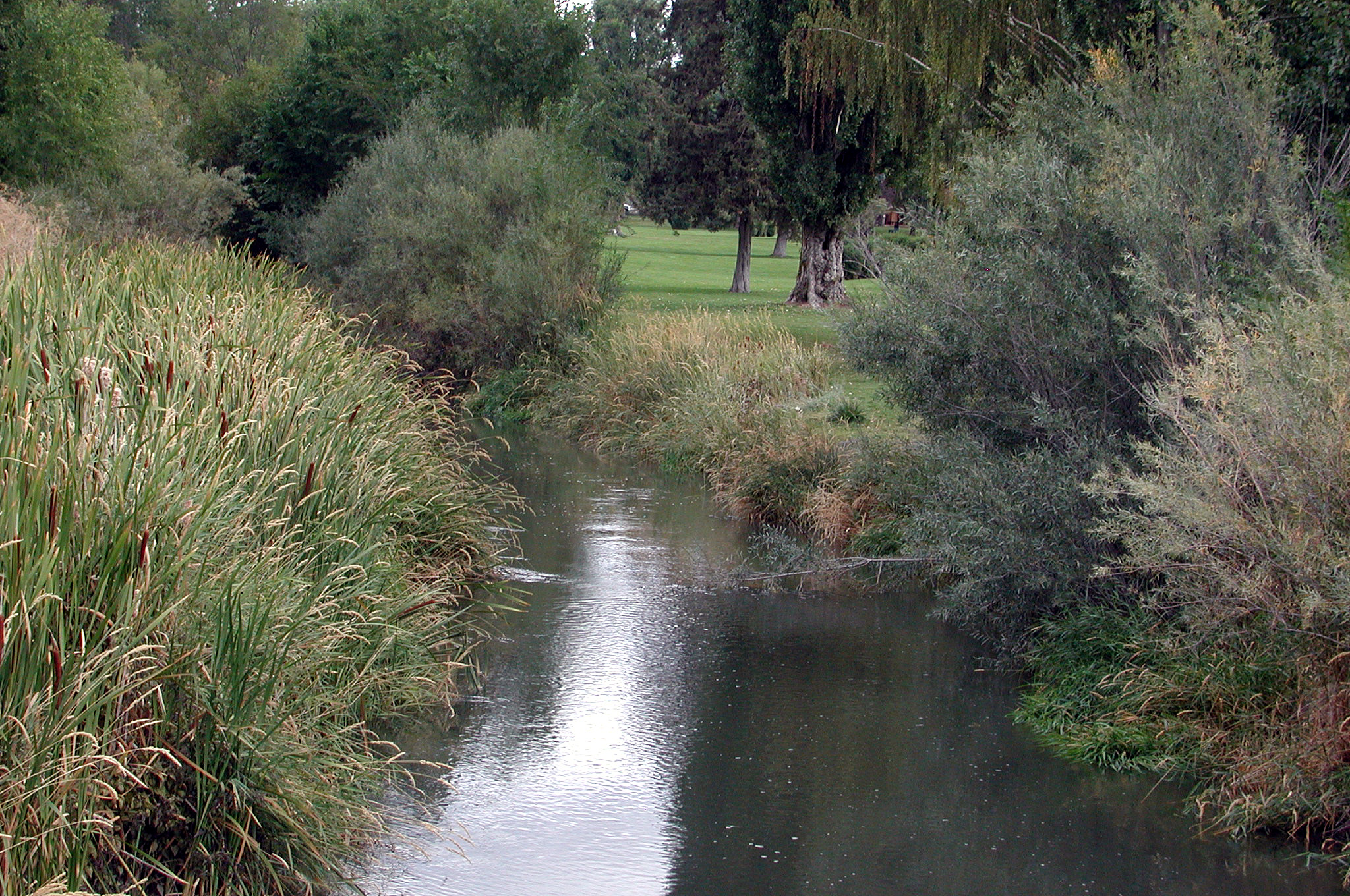 Ochoco Creek in Ochoco Creek Park in Prineville, Oregon. Photo taken from Elm Street bridge.